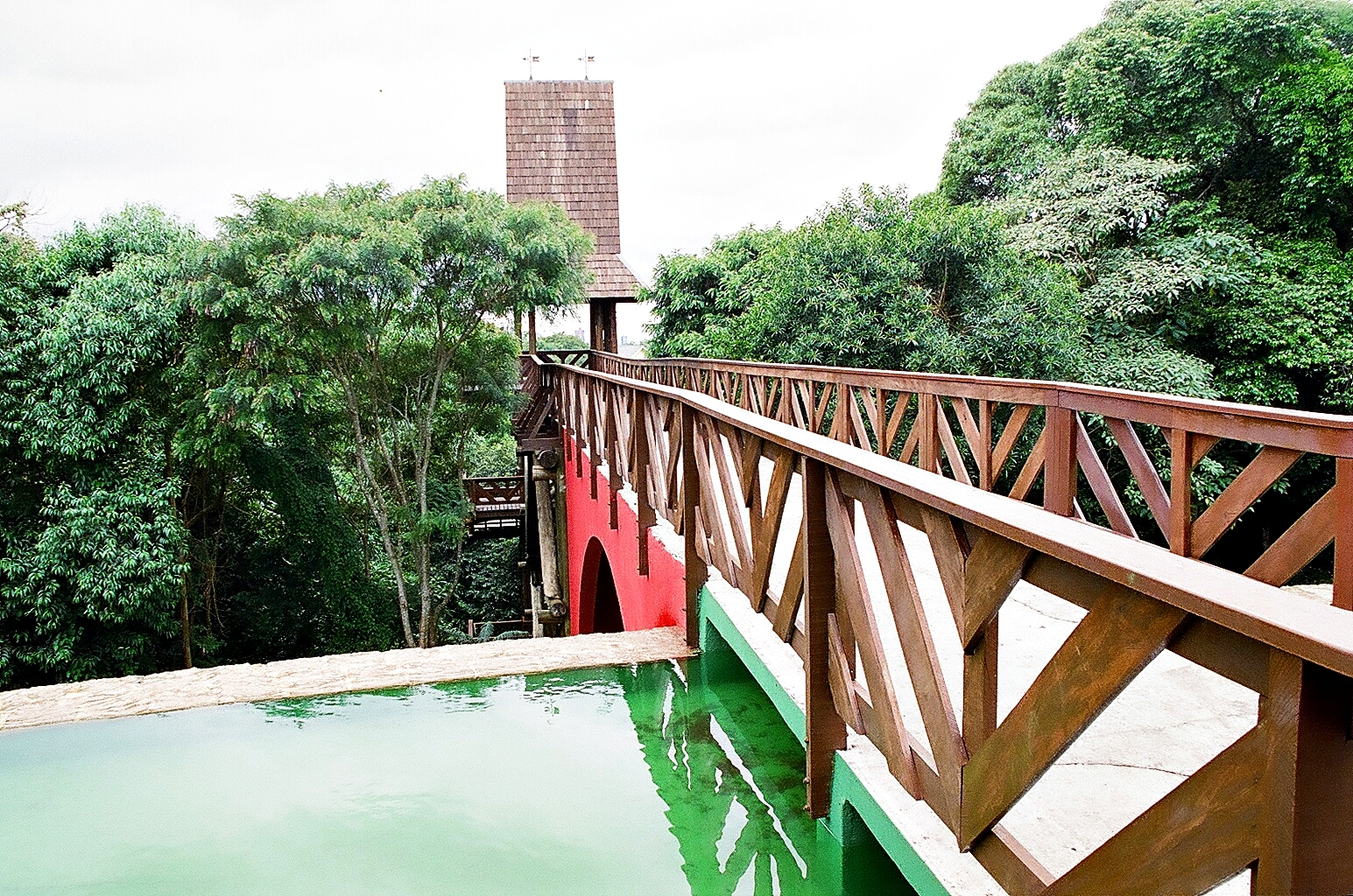 German Grove in Curitiba - State of Parana - Brazil